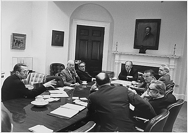 Scope and content: This photograph was taken in the Roosevelt Room at the White House. Pictured, clockwise from left-to right, are William Colby, Director, Central Intelligence Agency; Robert S. Ingersoll, Deputy Secretary of State; Secretary of State Henry A. Kissinger; Secretary of Defense James Schlesinger; William Clements, Deputy Secretary of Defense; Vice President Nelson A. Rockefeller; and General George S. Brown, Chairman of the Joint Chiefs of Staff.